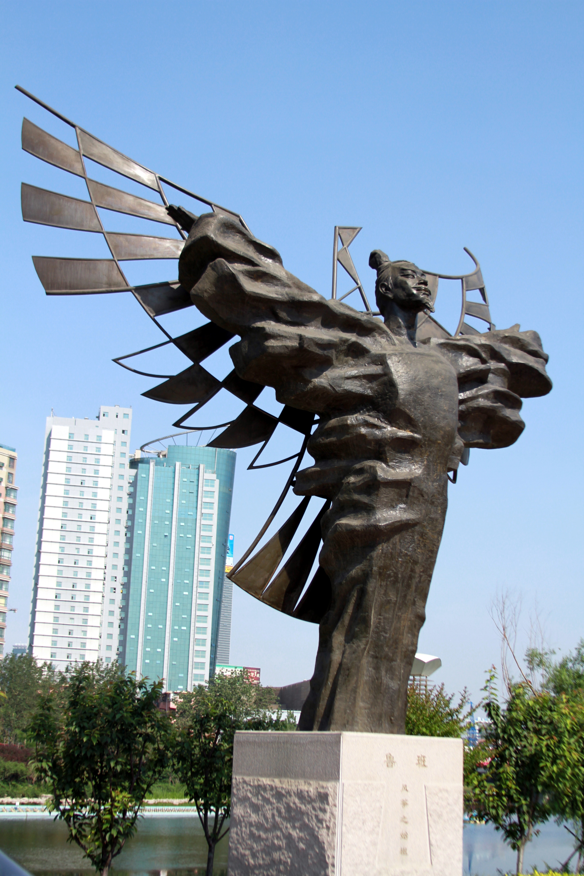 Photograph of a sculpture of Lu Ban, Chinese carpenter, engineer, philosopher, inventor, military thinker, statesman, opposite of the Kite Museum, in the City of Weifang, Shandong, China